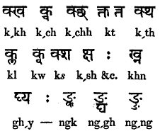 Demonstrates an encoding of halant with slashes on a Jonesian/Hunterian transliteration scheme